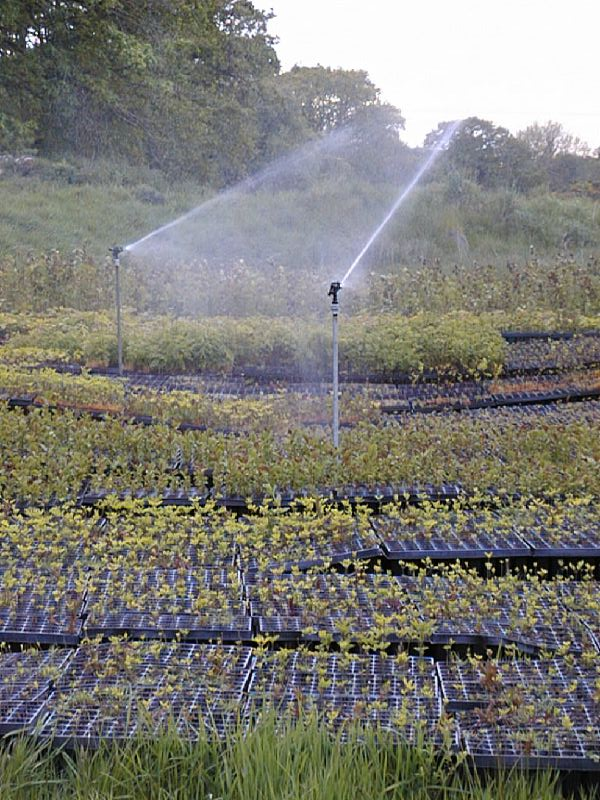 A tree nursery in Wales